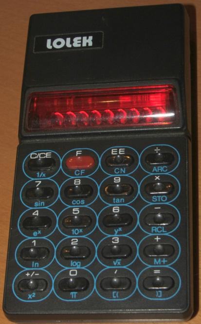 Elwro 481 Lolek calculator